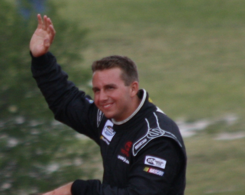 NASCAR driver Matt DiBenedetto during driver's introductions at the 2012 Sargento 200 Nationwide Series race at Road America.